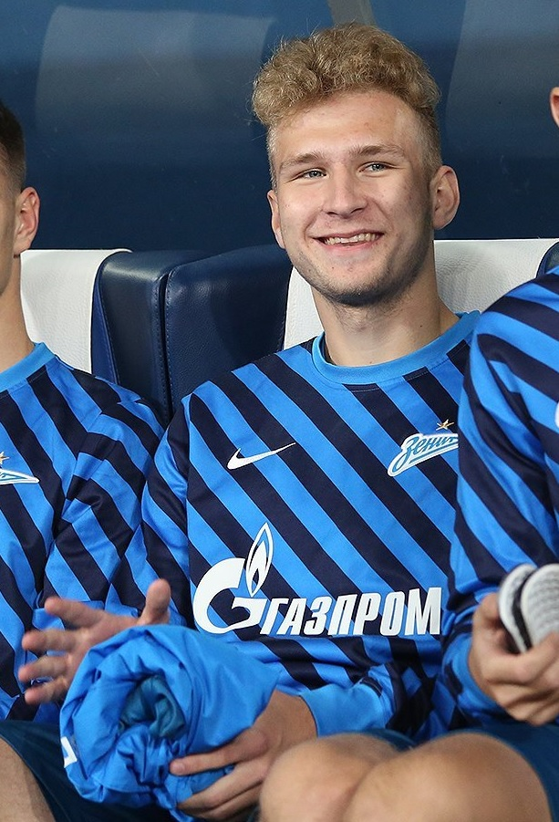 Daniil Shamkin on the bench of FC Zenit Saint Petersburg during a game against FC Lokomotiv Moscow.